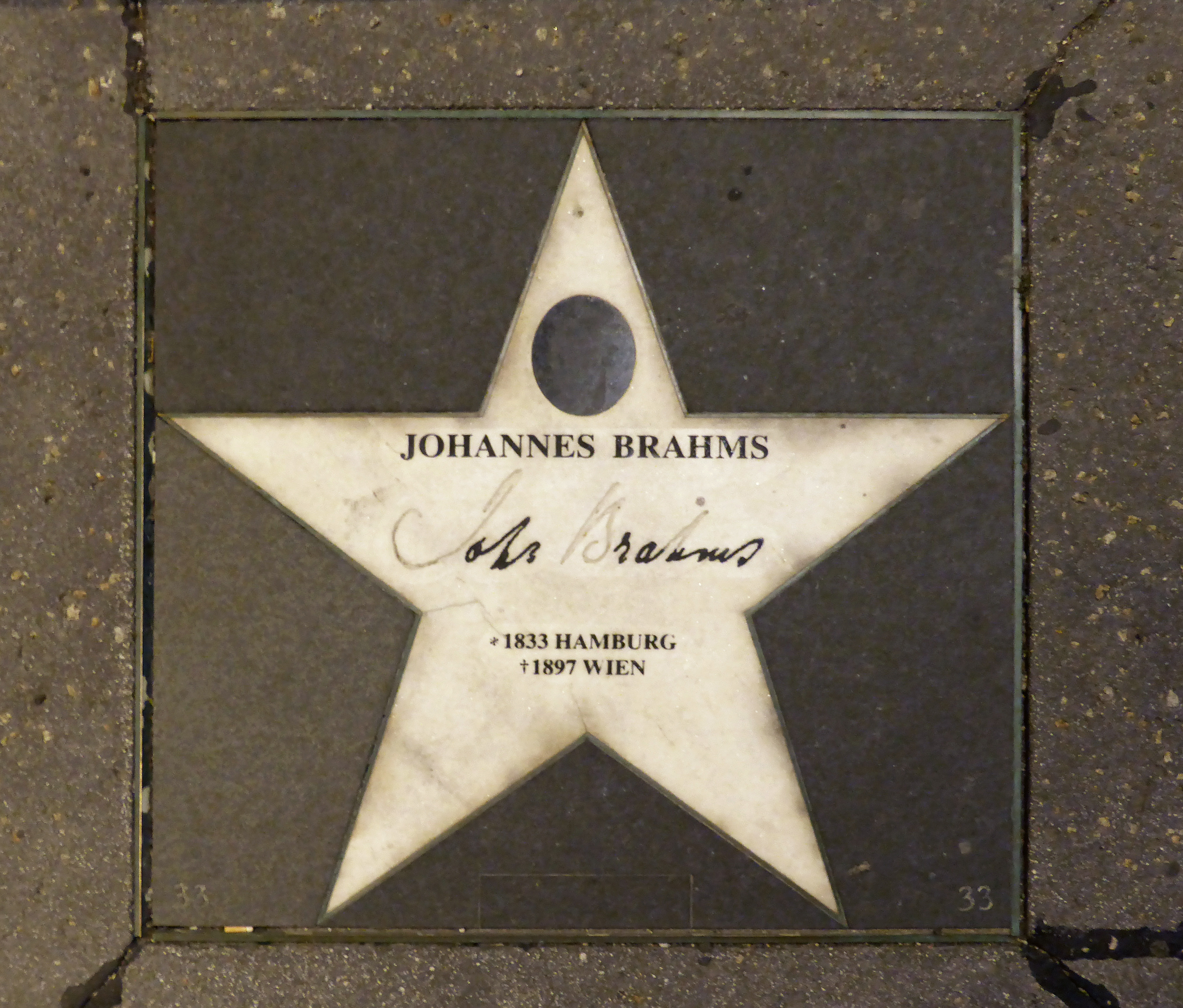 Walk of Fame Vienna Johannes Brahms.